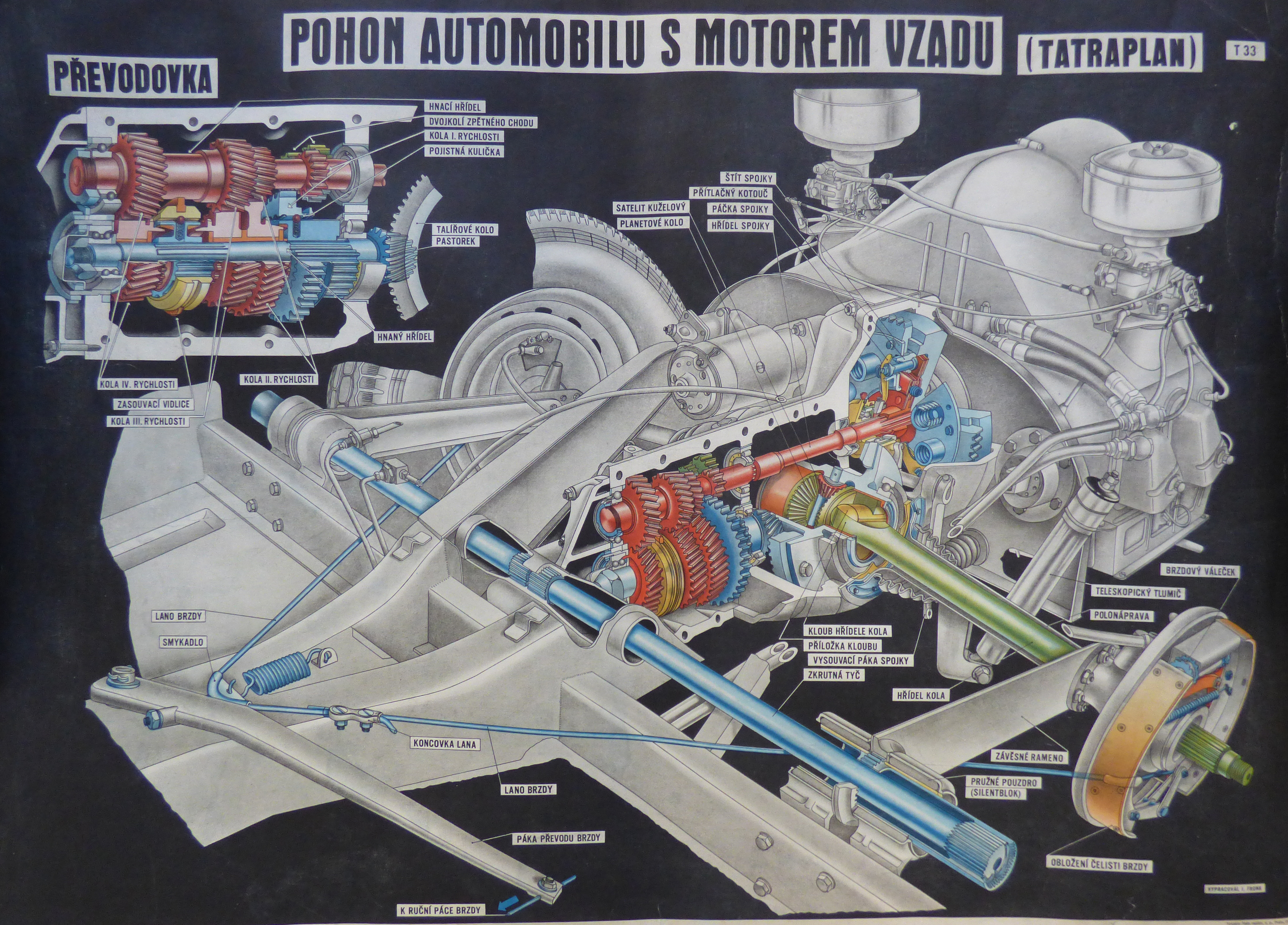 Tatraplan